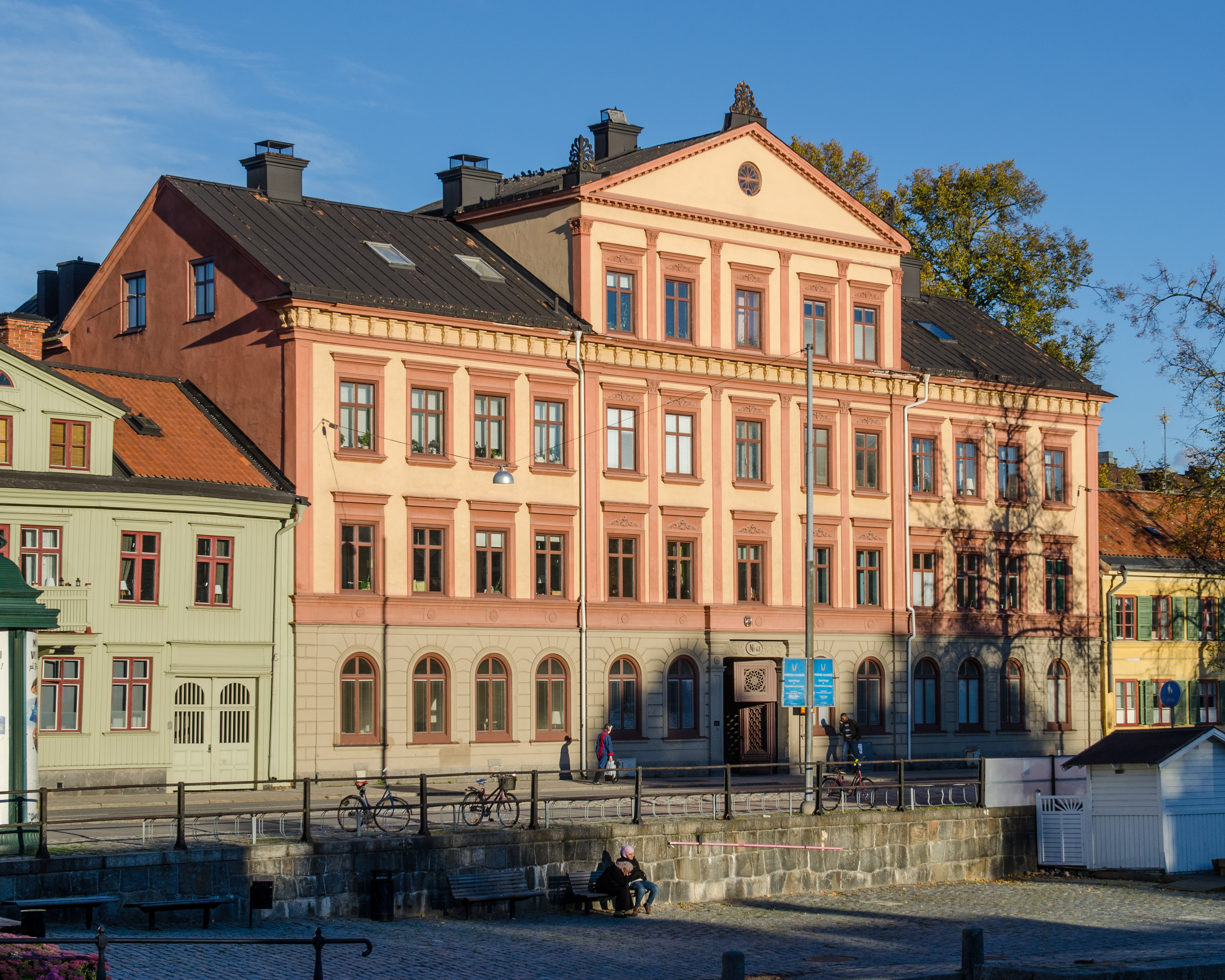 Vershuset, built 1863. Adress: Östra Ågatan 65, Uppsala.